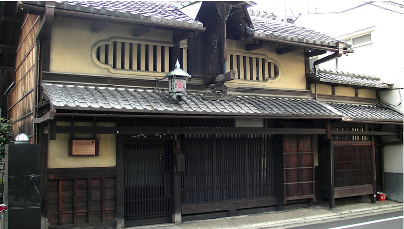 Aburanokoji-dori Hata-ke House